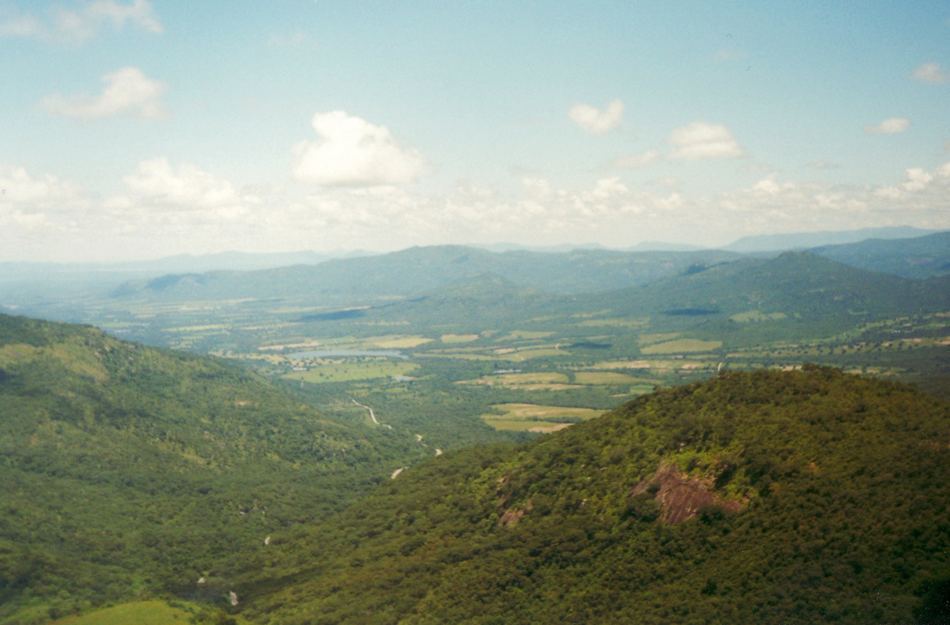 Burma Valley in Manicaland, Zimbabwe. View across the valley into Mozambique.